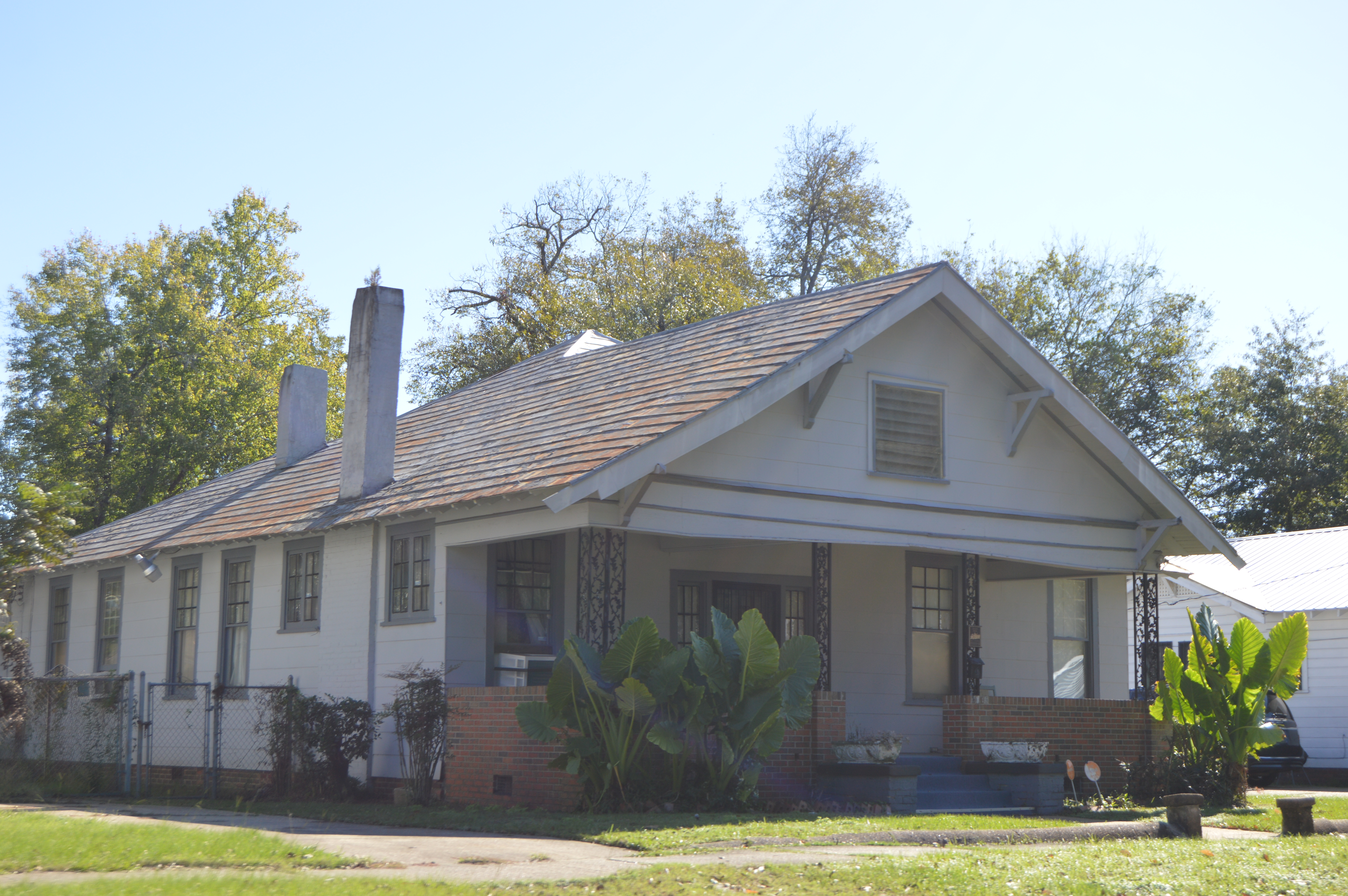 Front and northern side of the Sullivan and Richie Jean Jackson House, located at 1416 Lapsley Avenue in Selma, Alabama, United States. Built in 1906, it is listed on the National Register of Historic Places.